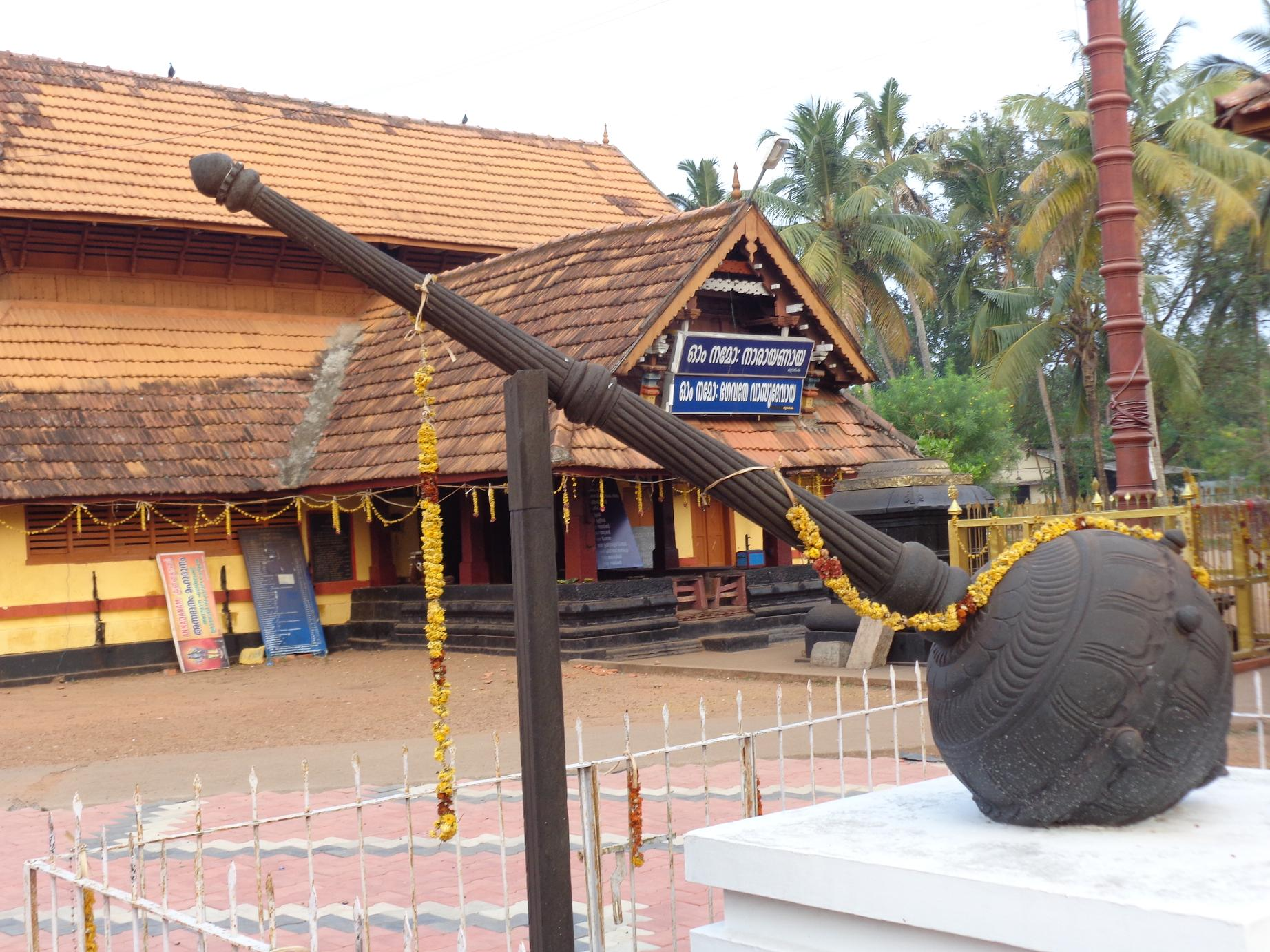 the statue of huge gada of bhima at thrippuliyoor mahavishnu temple